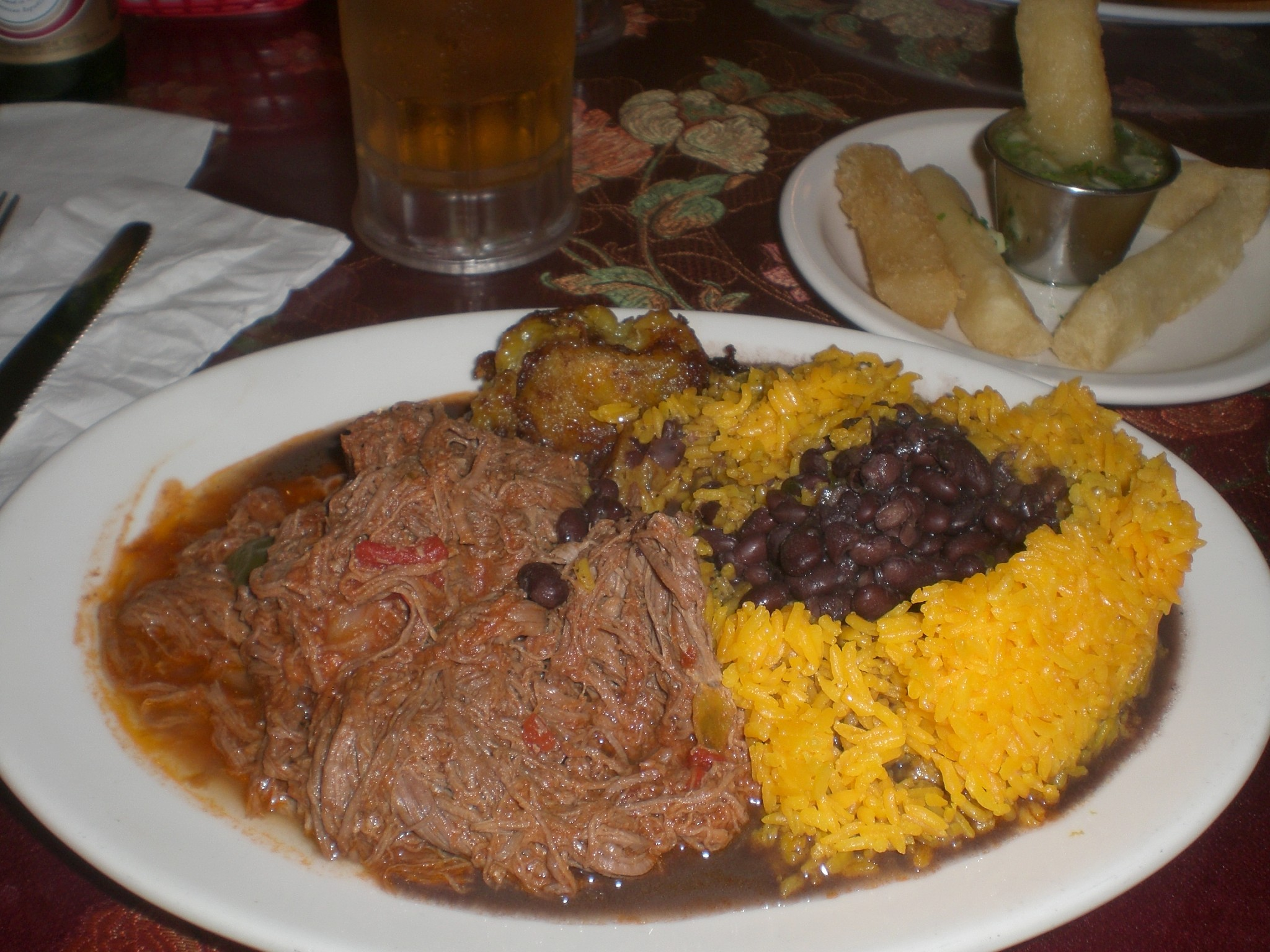 Typical Cuban dinner consisting of ropa vieja (shredded flank steak in a tomato sauce base), black beans, white rice, plantains and fried yucca.